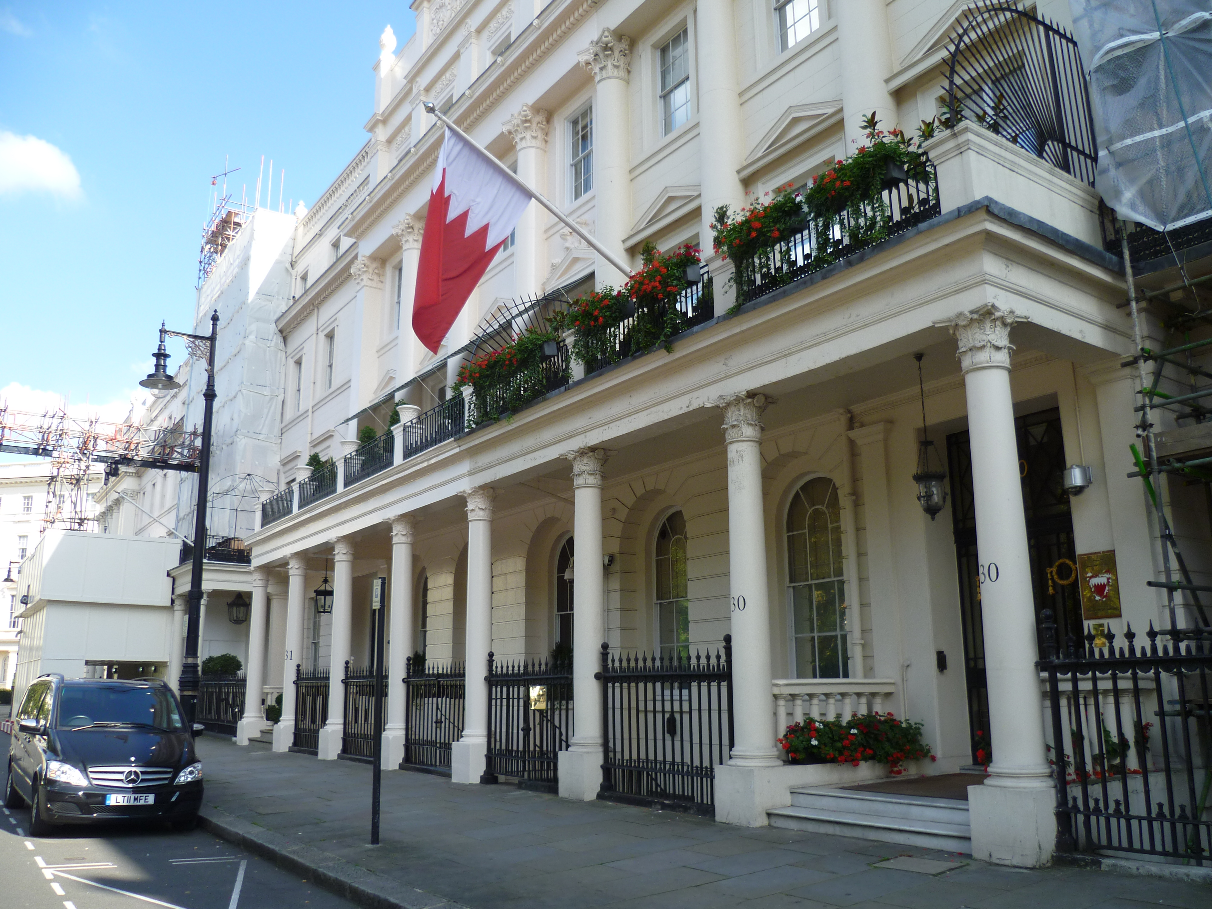 Belgrave Square